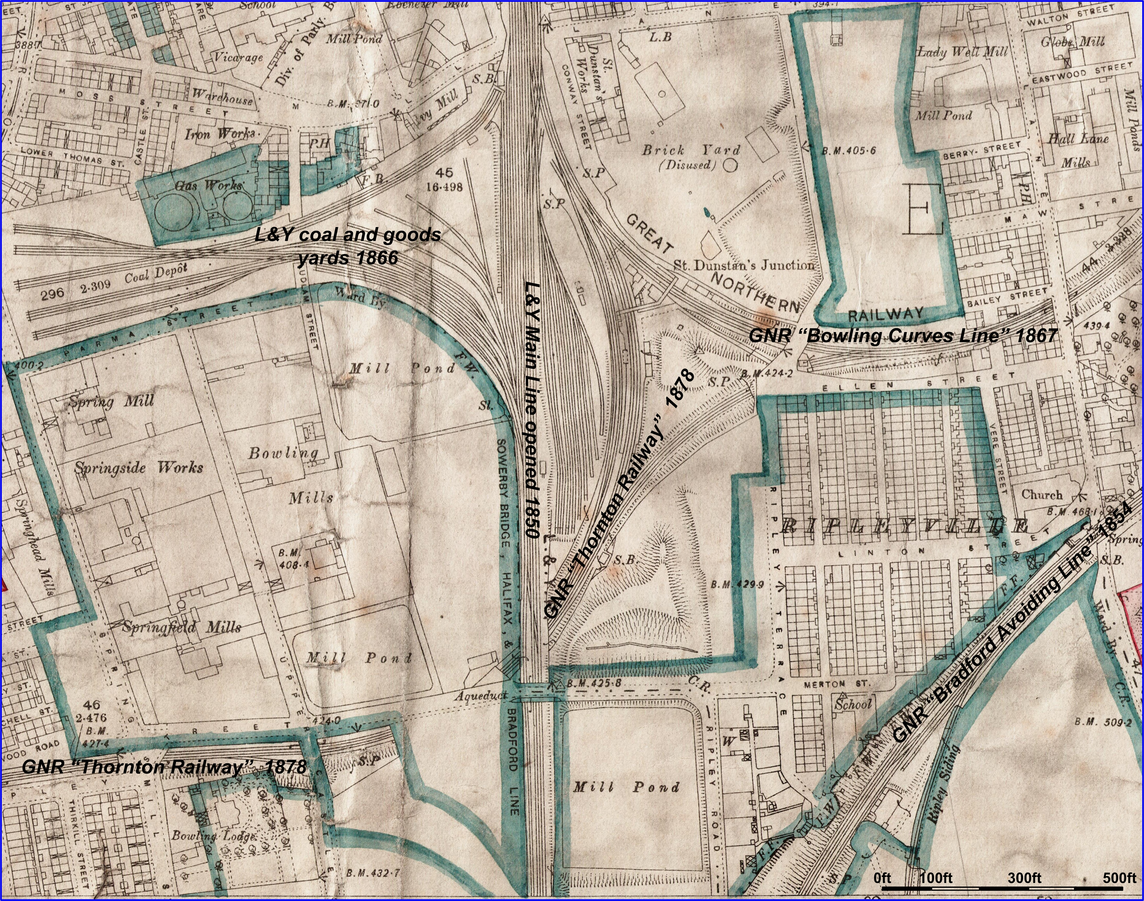 Extract from 1:2500 OS map of central Bradford